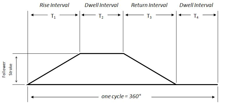 This is a basic displacement diagram.